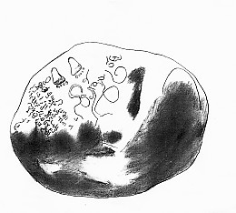 Prasasti Ciaruteun,a prasasti of ancient kingdom of Tarumanagara,eastern jawa,early 5th century.